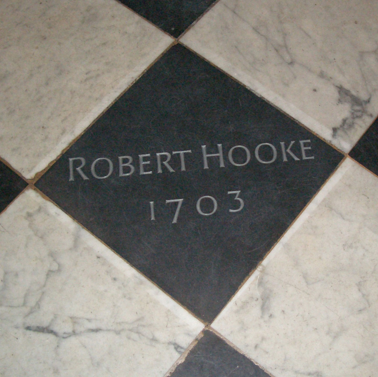 Floor tile to Hooke in Westminster Abbey: Eddie Smith, former Undermaster and archivist at Westminster School, worked tirelessly on Hooke's behalf to get him a small memorial in Westminster Abbey. The work took years but eventually in 2005 one was unveiled. The inscription reads 'Robert Hooke 1703' and is carved from one of the black marble tiles in the floor beneath the Lantern, near the pulpit. This is most appropriate as Hooke was responsible for the laying of this floor.